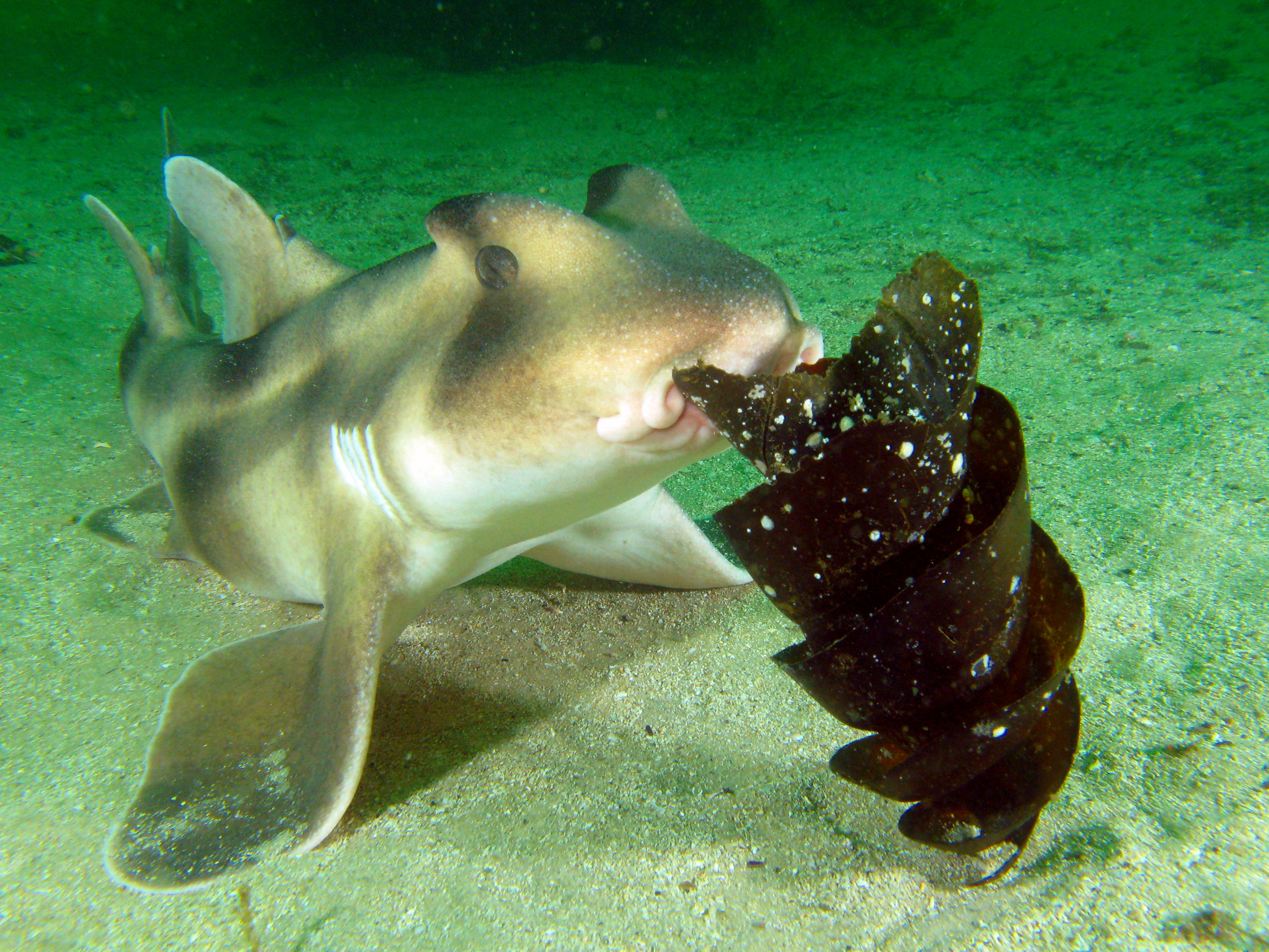 Crested bullhead shark (Heterodontus galeatus) feeding on the egg case of a Port Jackson shark (Heterodontus portusjacksoni), off Bare Island